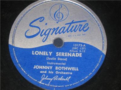 lonely serenade johnny bothwell shellack